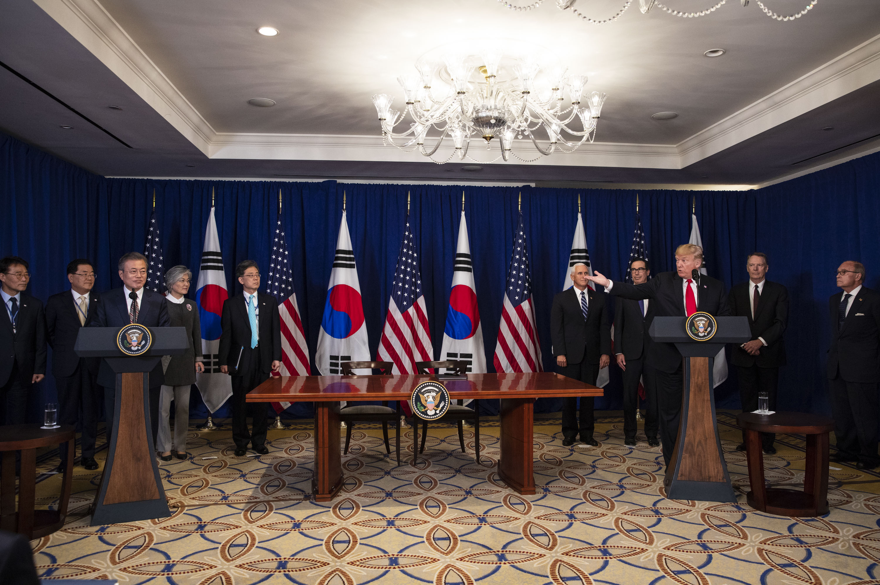 President Donald J. Trump and the President of the Republic of South Korea Moon Jae-in deliver remarks after signing the United States-Korea Free Trade Agreement Monday, Sept. 24, 2018, at the Lotte New York Palace in New York. Vice President Mike Pence, U.S. Trade Representative Robert Lighthizer, Secretary of the Treasury Steven Mnuchin and Director of the National Economic Council Larry Kudlow attend. (Official White House Photo by Joyce N. Boghosian)